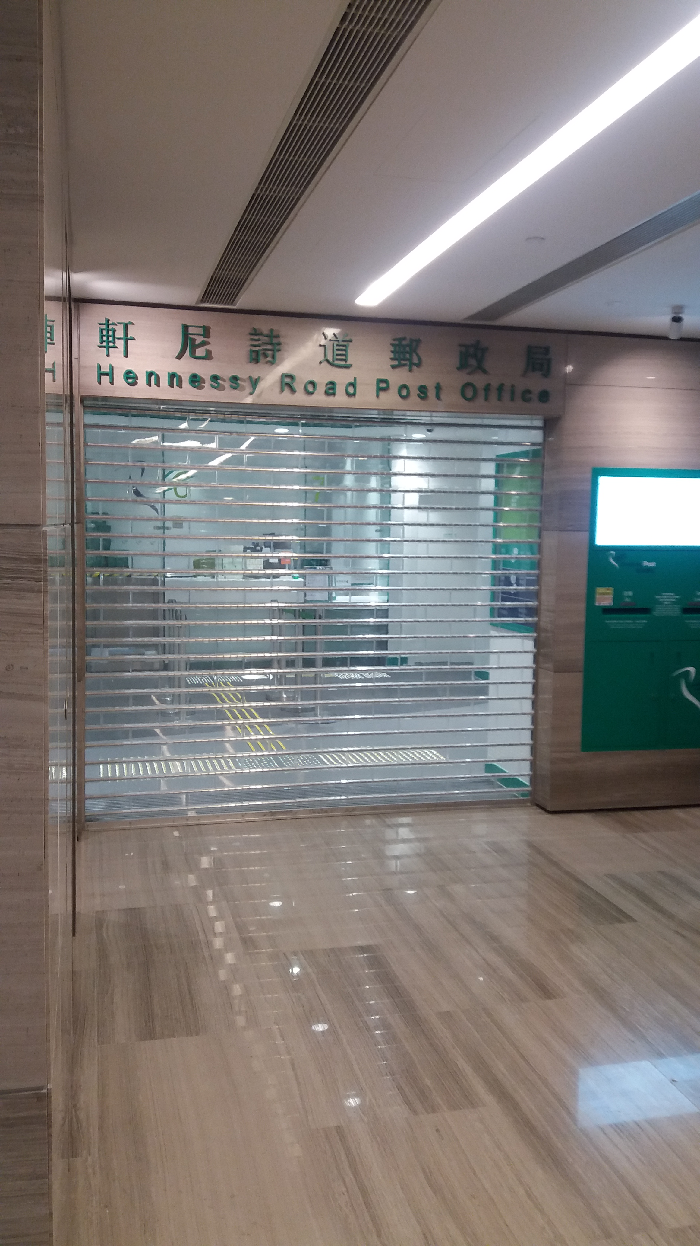 Hennessy Road Post Office (Jul 2019)